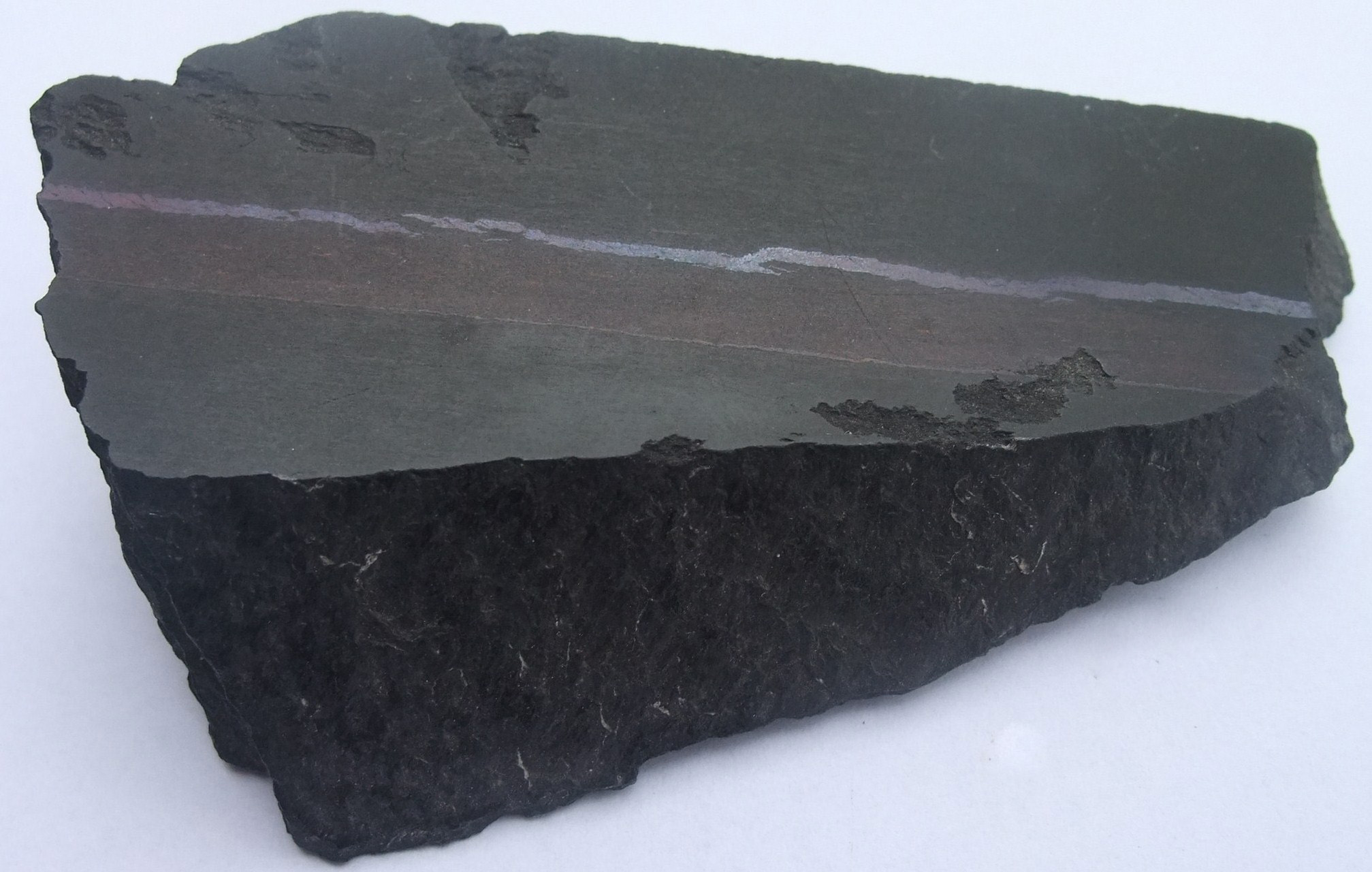 Polished section from the Mansfeld (Germany) copper deposit (Copper Shale, Upper Permian), showing an stratabound elongated copper ore lens, consisting of bornite (purple copper ore). Size of the polished section is about 25 x 80 mm.